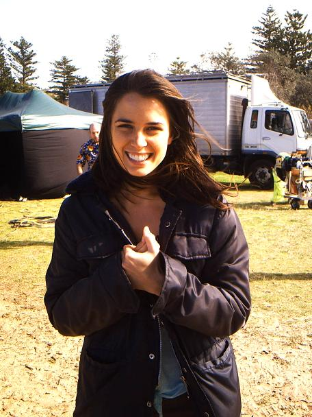 A photo of Jodi Gordon, taken during a break in filming the Australia soap opera Home and Away. Taken by cls14 in August 2006.